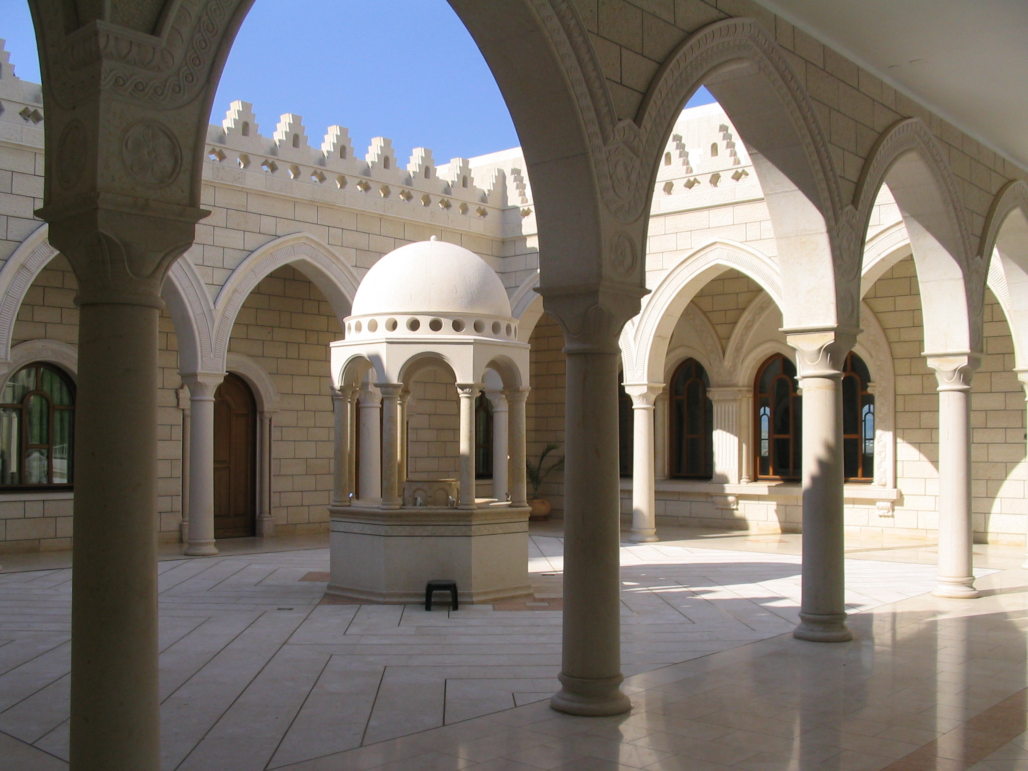 In the holy place of jethro, Religion in Israel